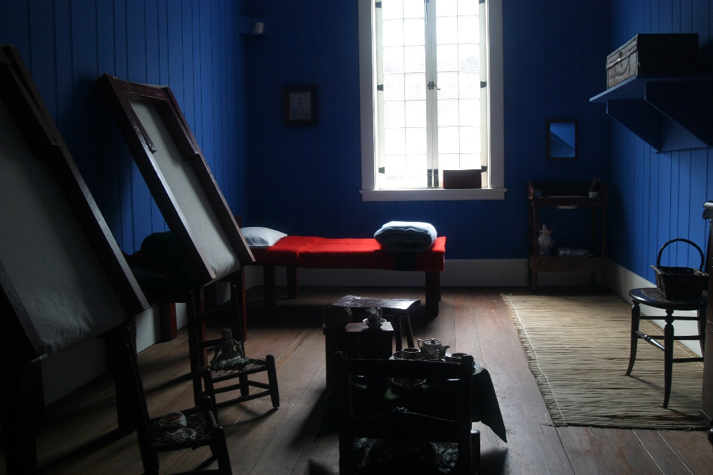 Cots in the dispensary at Fort Vancouver, Vancouver, Washington, United States.